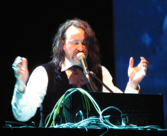 Alexander Hacke, live at the audio-visual show "Mountains of Madness" (together with Tiger Lillies & Danielle de Picciotto), May 24 2007, Frankfurt am Main (Germany), at "Mousonturm". See also: Image:2007-05-24 Hacke and Tiger Lillies live.jpg